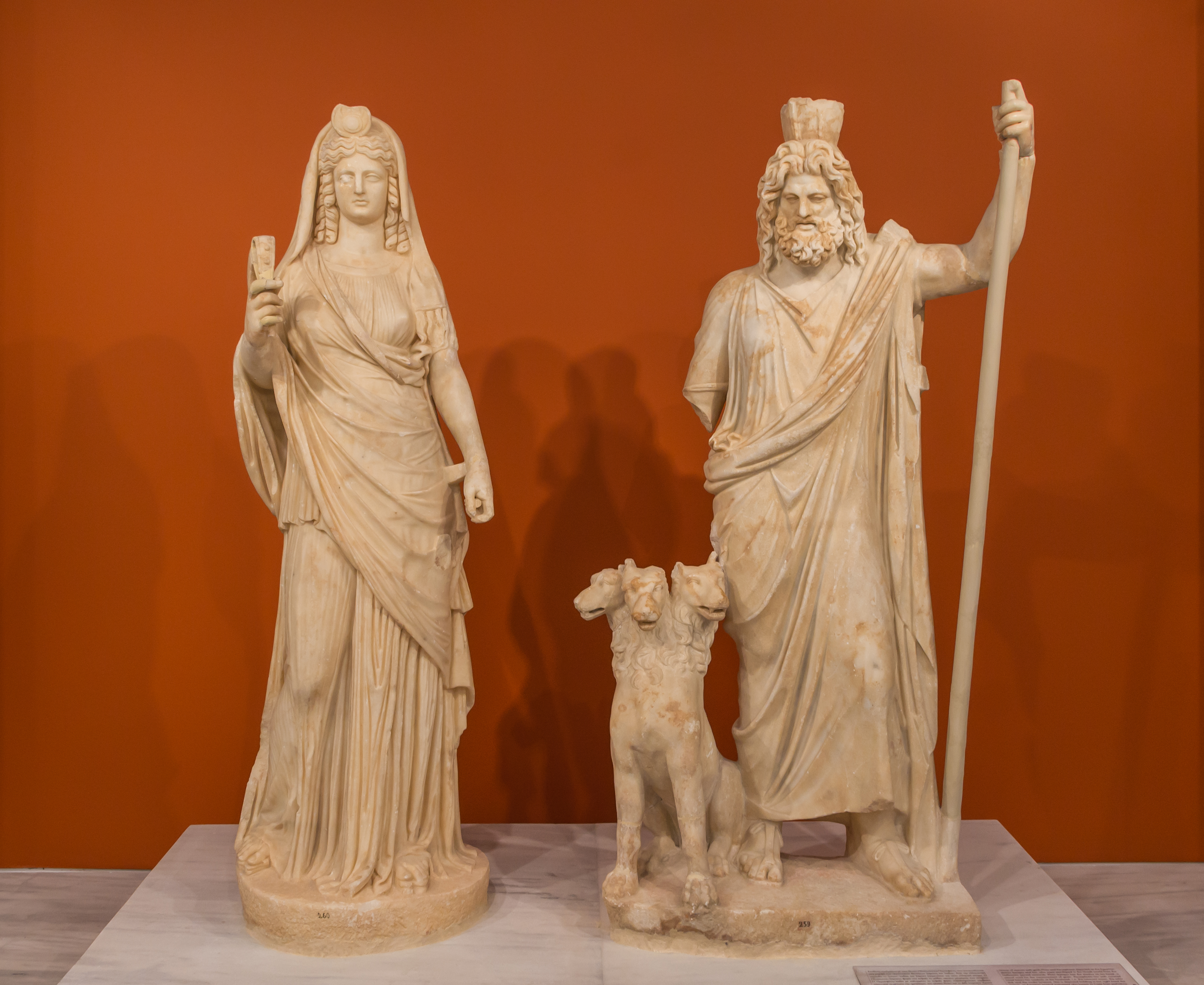 Group of ancient Roman statues of Persephone (as Isis), Cerberus, and Pluto (as Serapis), from Gortys. Archaeological Museum of Heraklion, Crete, Greece.These gods were worshiped in the Greek world from the Hellenistic period onwards. Pluto/Serapis has the modes on his head, a utensil used for the measurement of grain. Persephone/Isis with covered head, bears her symbols at the forehead (the crescent moon, the solar disk and the snake (uraeus). She is depicted holding in her right hand the sistrum, an egyptian musical instrument also known to Crete from prehistory, and in the left probably the straps that kept the dog Cerberus. The inclusion of Cerberus, guard of the underworld, in the group defines the two deities, despite their Egyptian symbols, as Pluto and Persephone, gods of the underworld. The group is a typical example of syncretism during Hellenistic and Roman times.